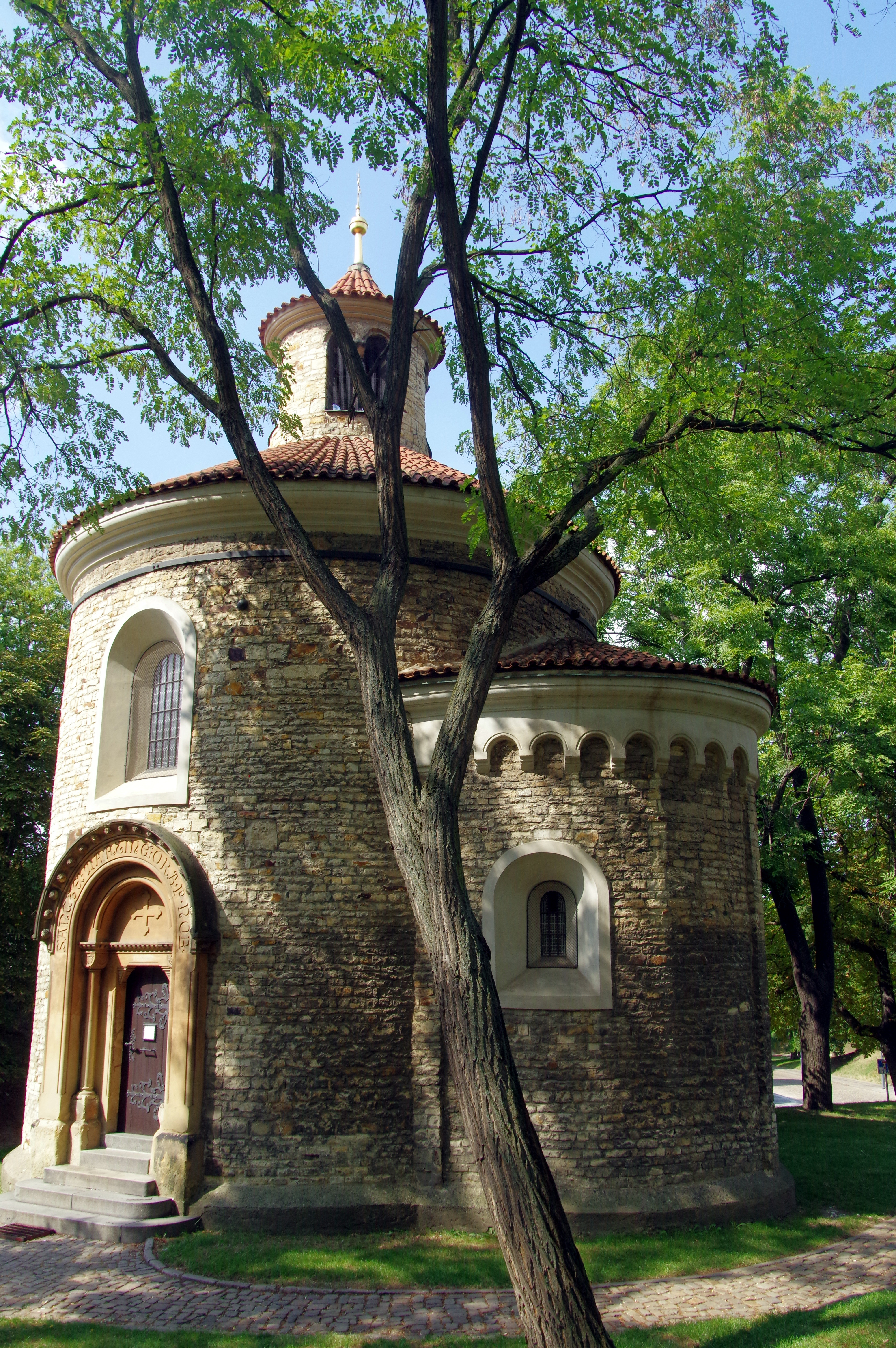 1.9.15 Vysehrad and VyseHratky